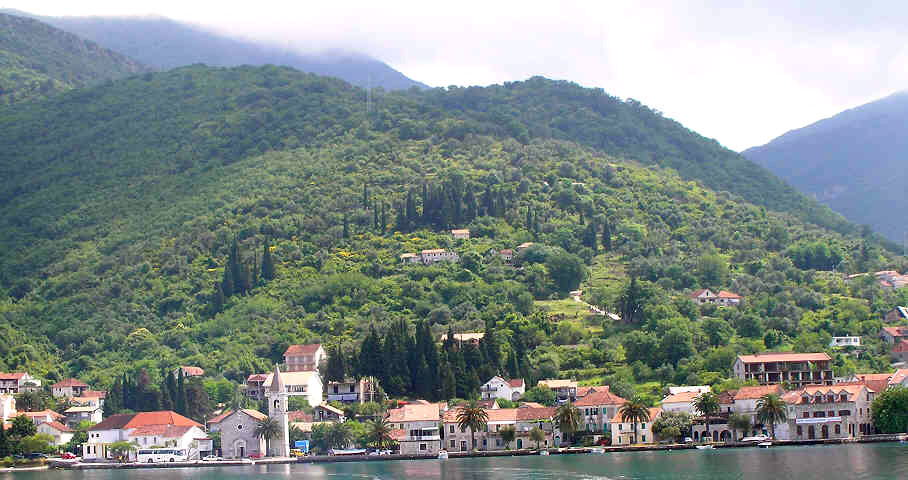 looking east towards Tivat, Montenegro from a boat